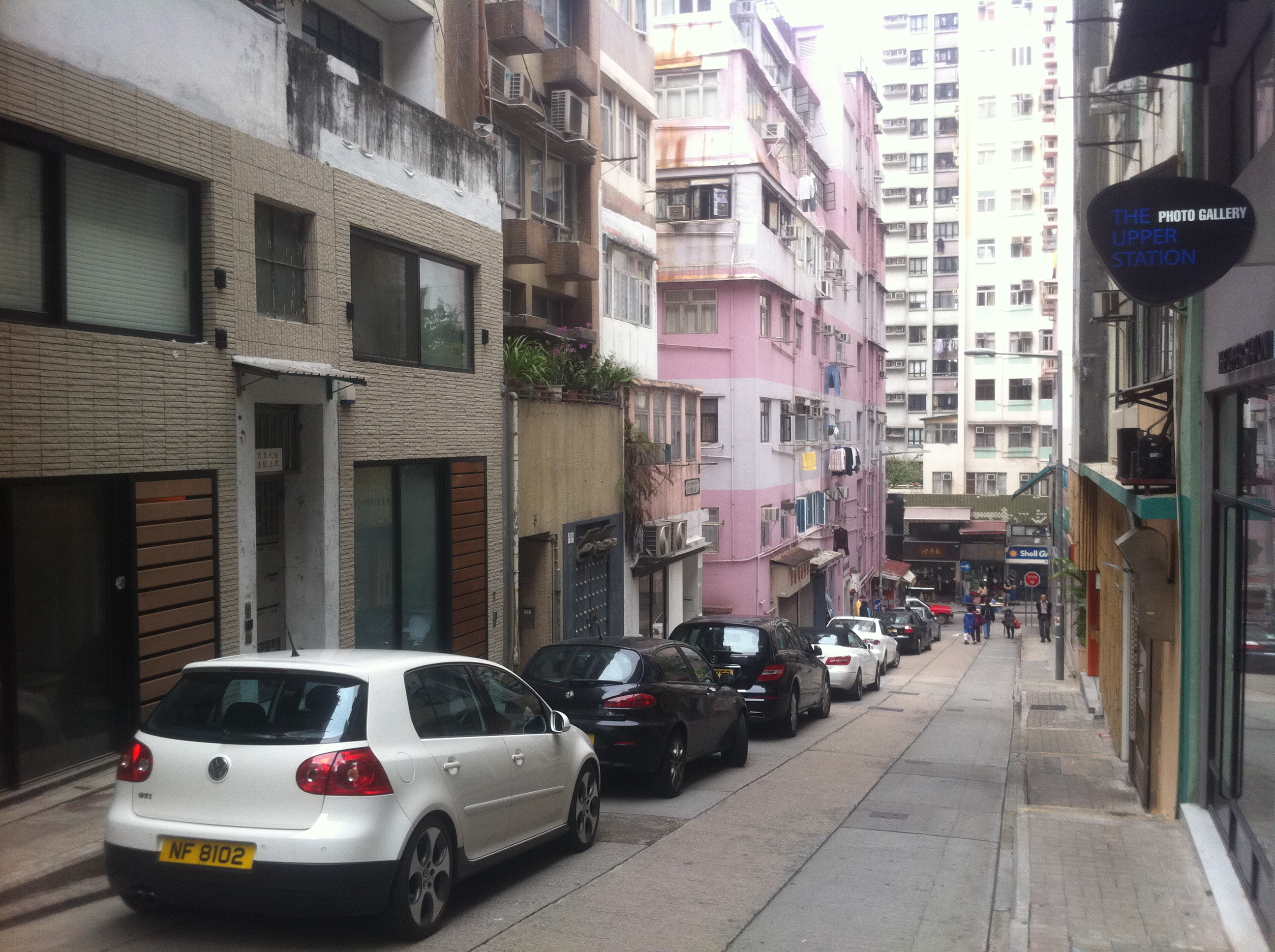 香港島 上環 差館上街, Upper Station Street, Sheung Wan, Hong Kong